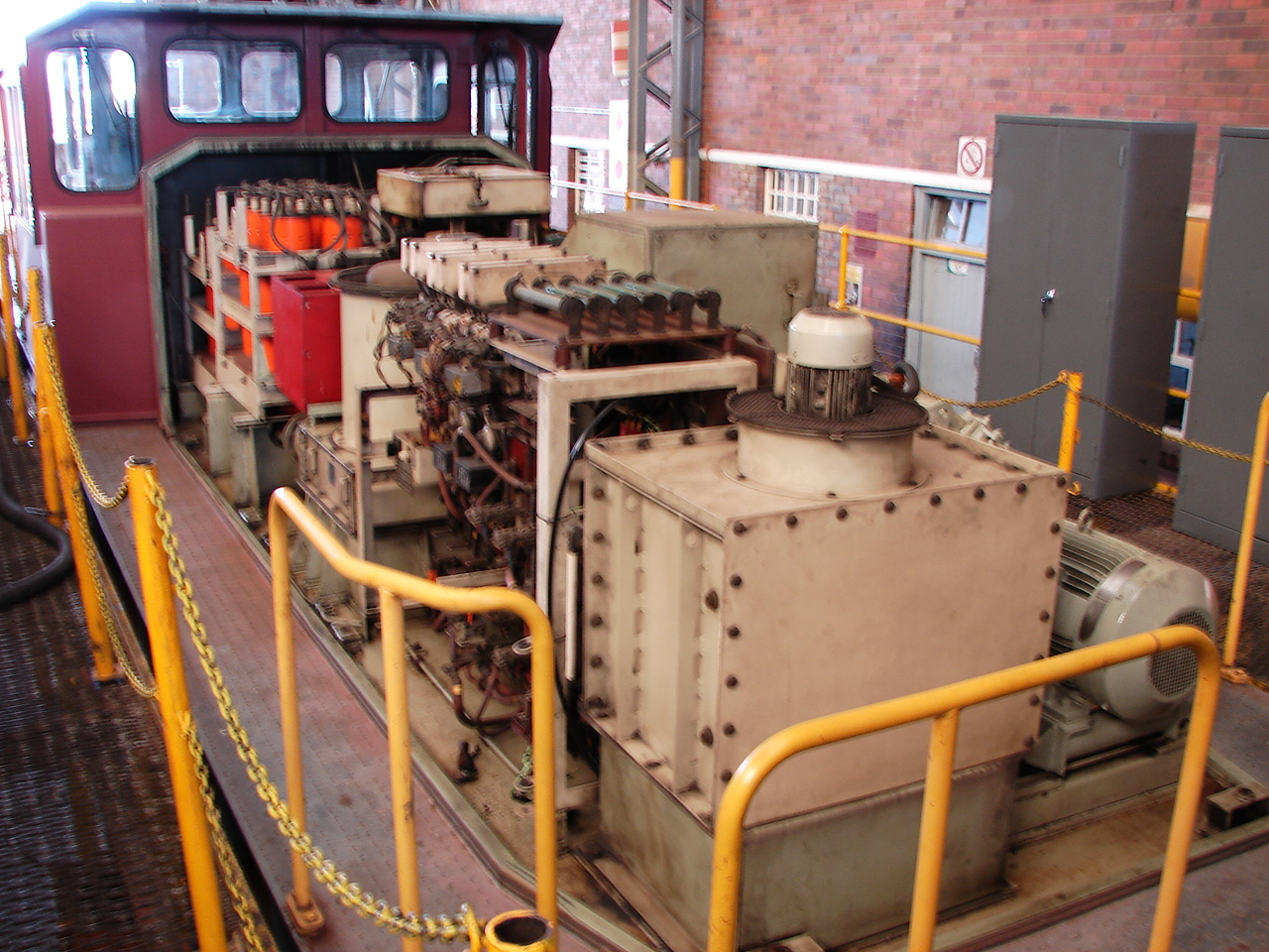 Class 8E no. E8008 with hood removed, no. 2 end, Beaconsfield Depot, Kimberley